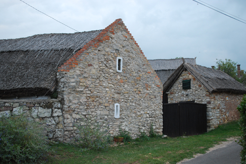 Street view of Paloznak, Hungary